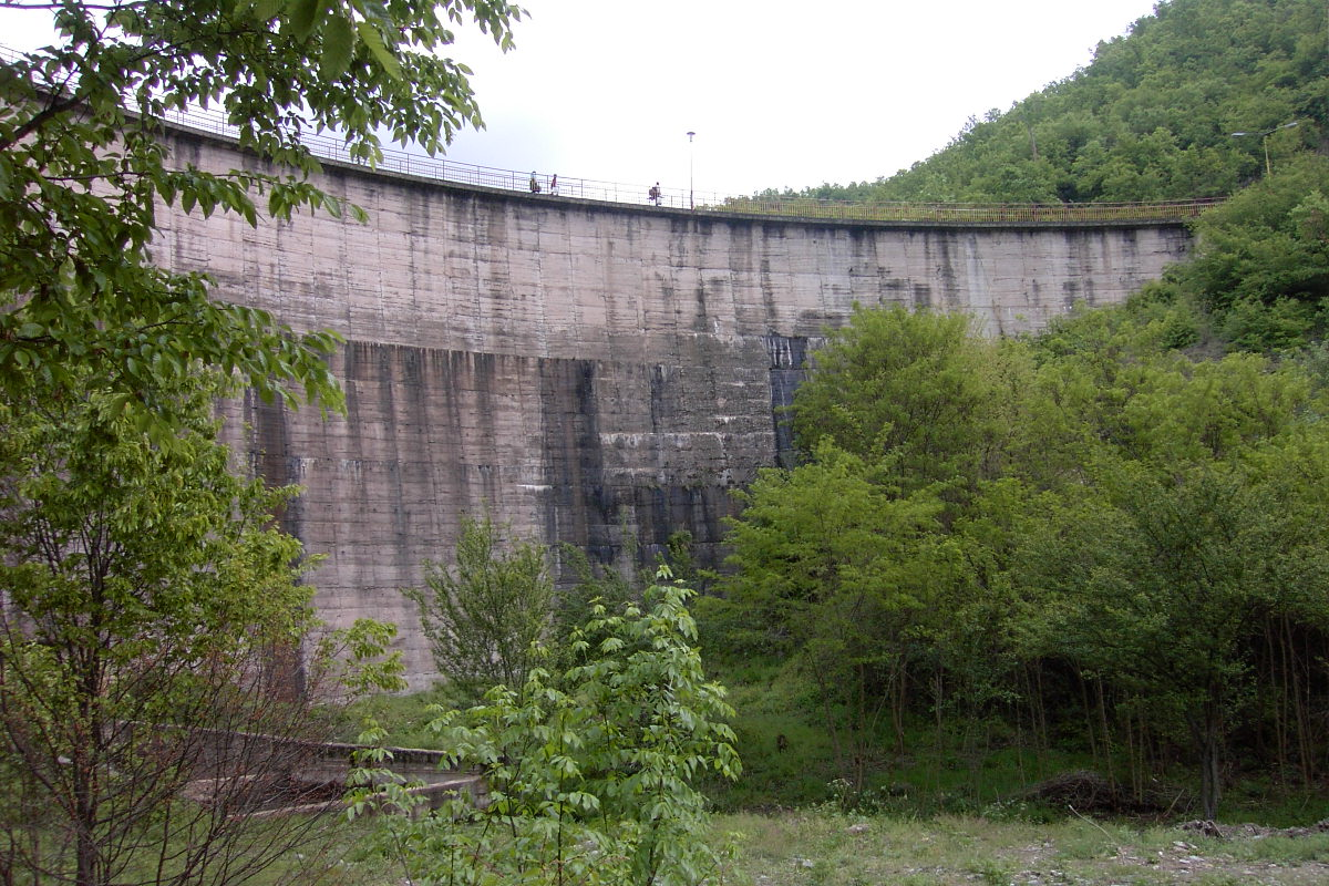 Artificial lake Gratce, Kocani, Republic of Macedonia